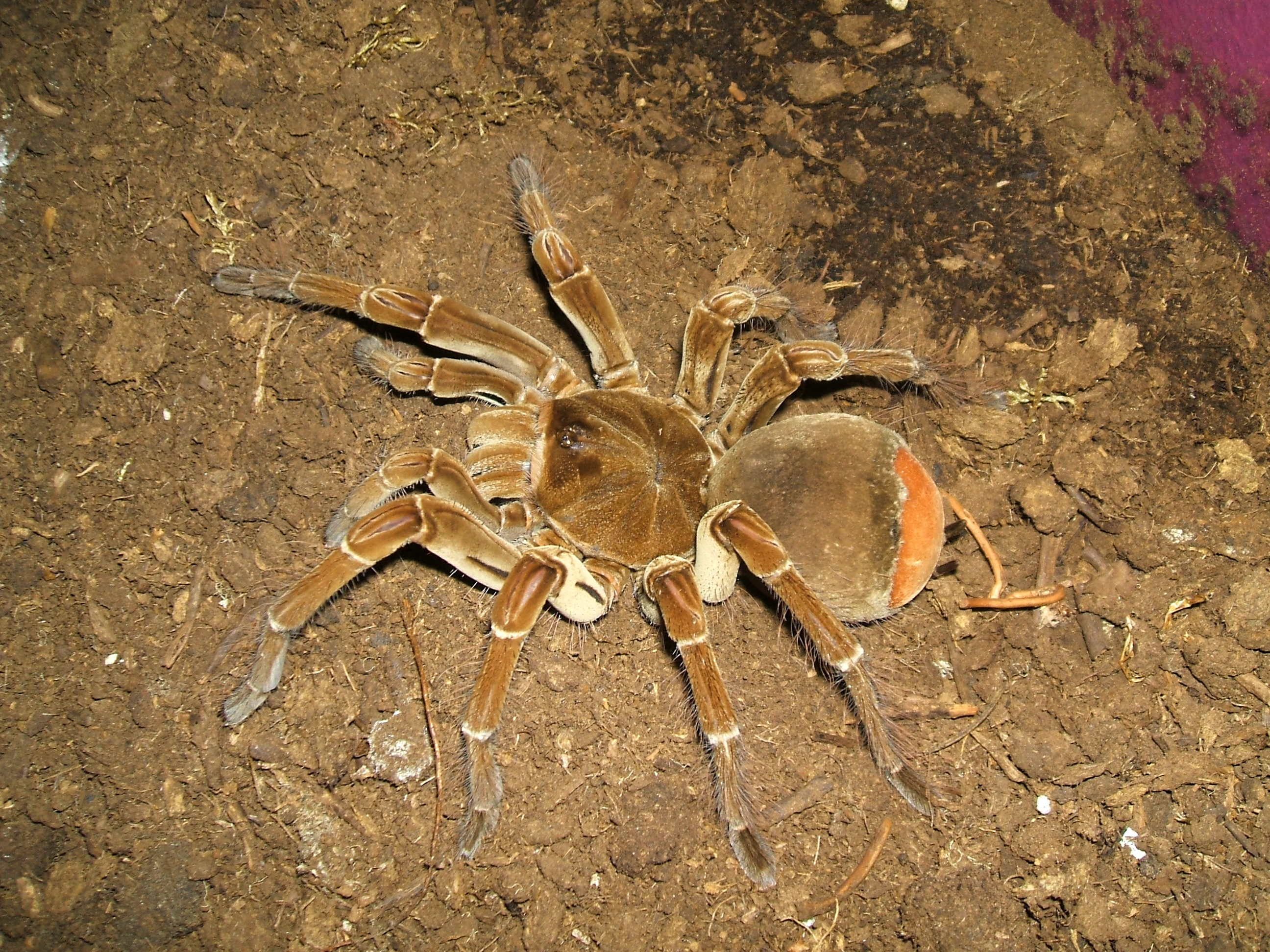 Picture of a female Theraphosa stirmi